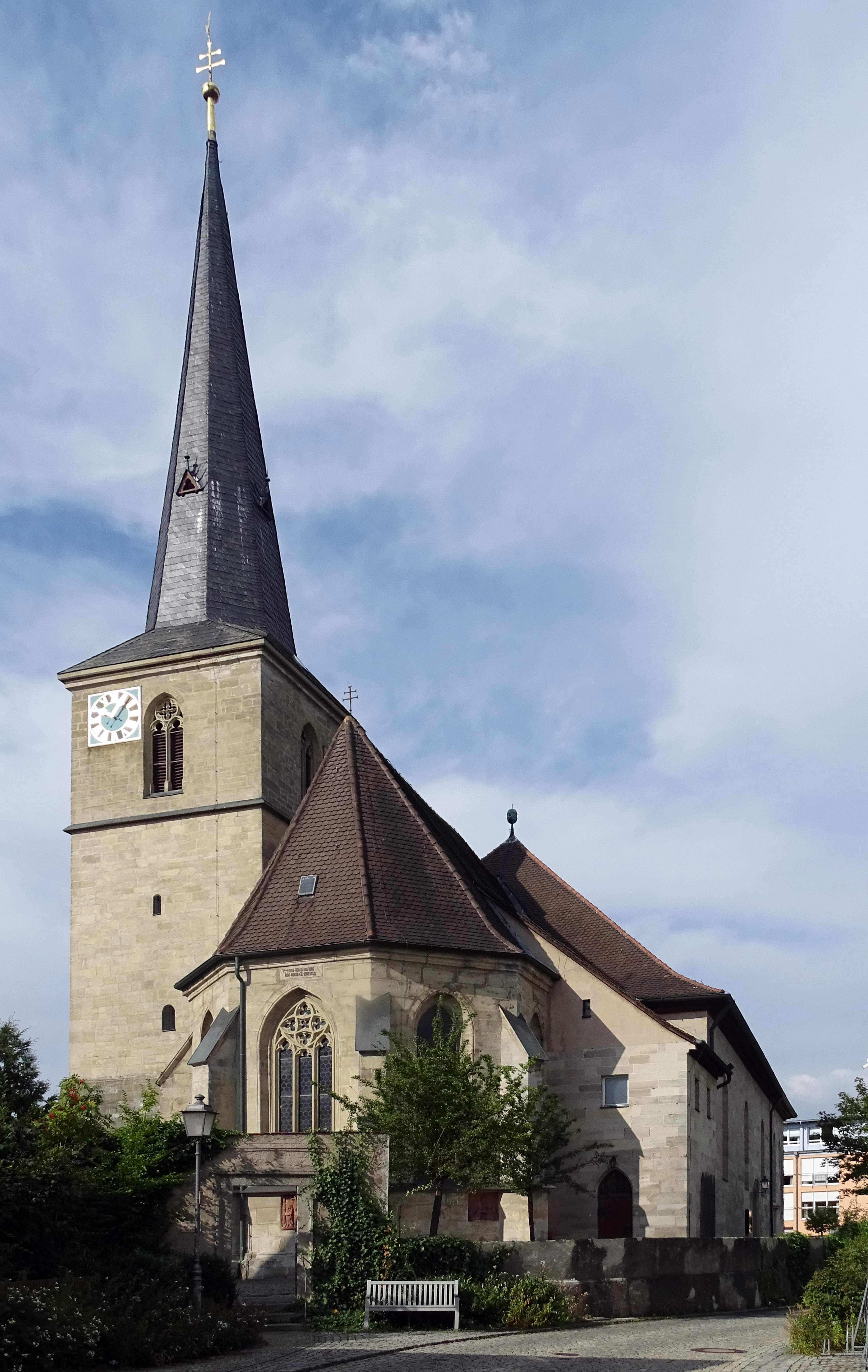 Catholic parish church of St. Vitus in Burgebrach, Kirchplatz 1